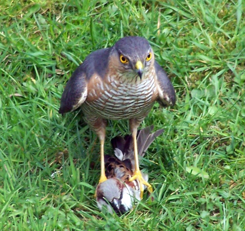 Male Eurasian Sparrowhawk with a Male House Sparrow